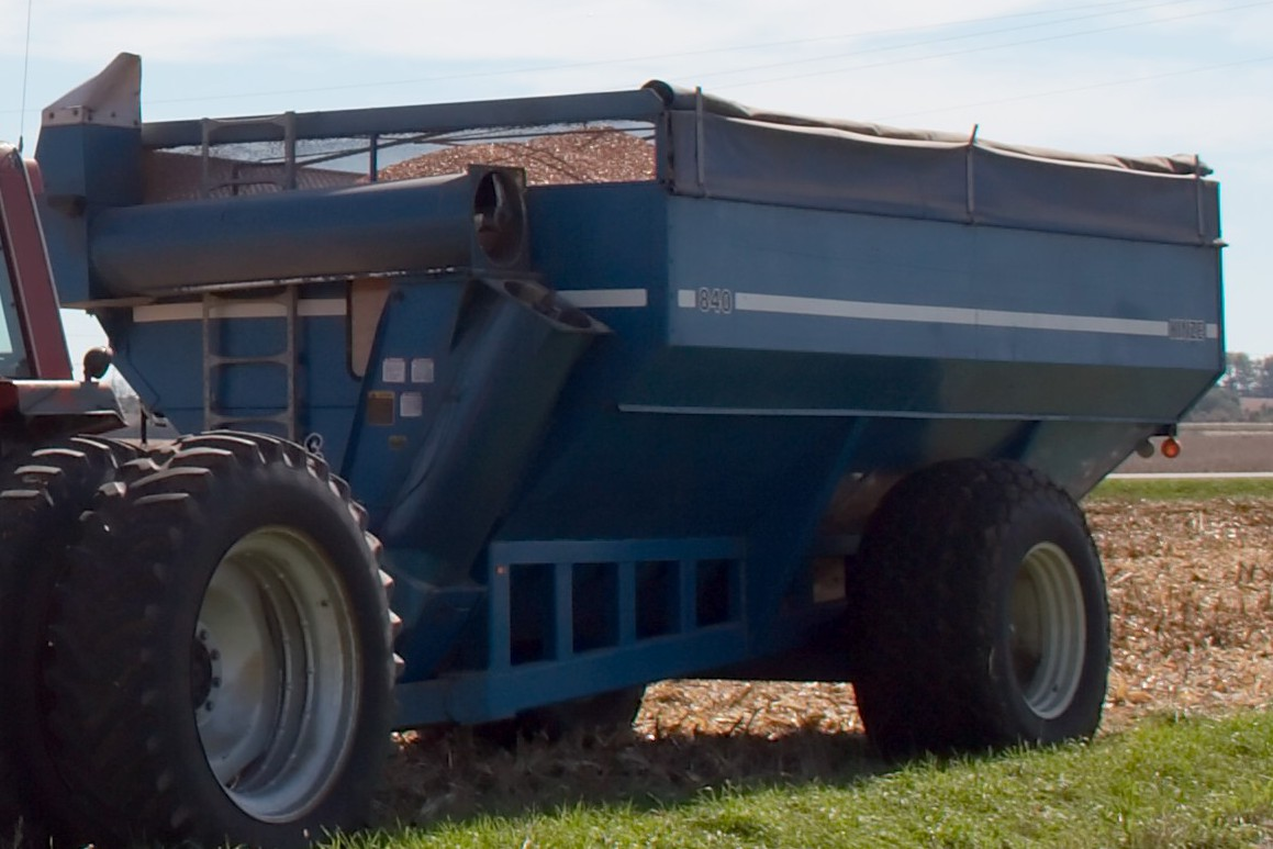 A Kinze 840 auger wagon near Paw Paw in a rural part of Illinois, USA